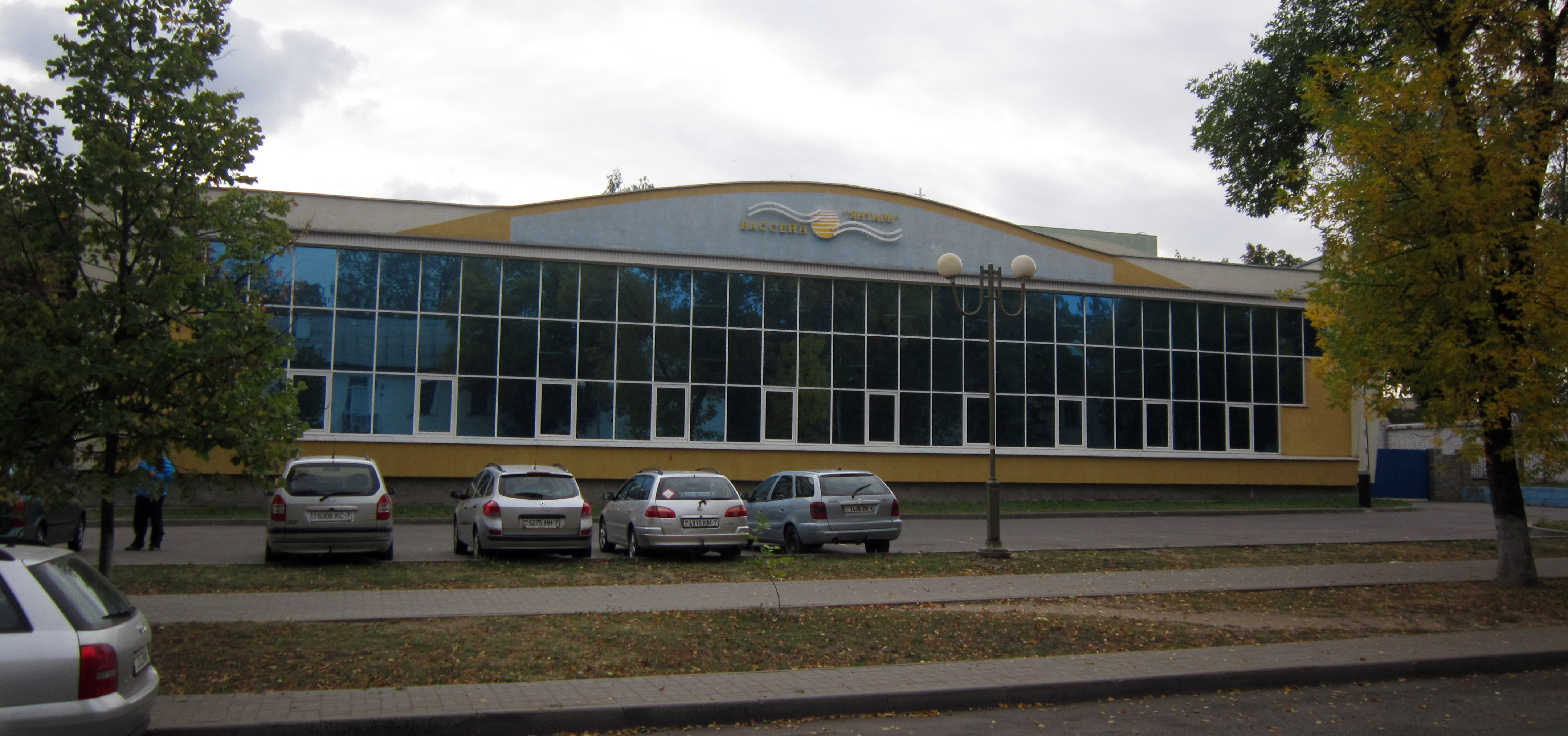 Lizy Čajkinaj street (Minsk, Belarus), house No 12 - "Amber" swimming pool